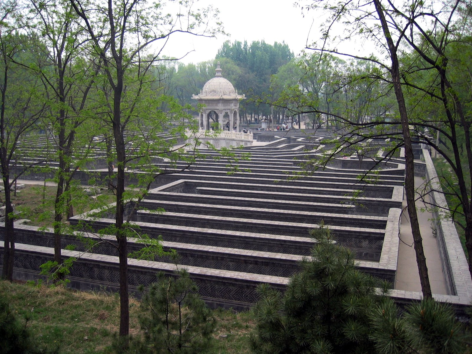 Walls of the Huanghuazhen, a restored labyrinth in the Changchunyuan near the Xiyang Lou (Western mansions) section. On the grounds of the Yunamingyuan (Old Summer Palace) — in Beijing.